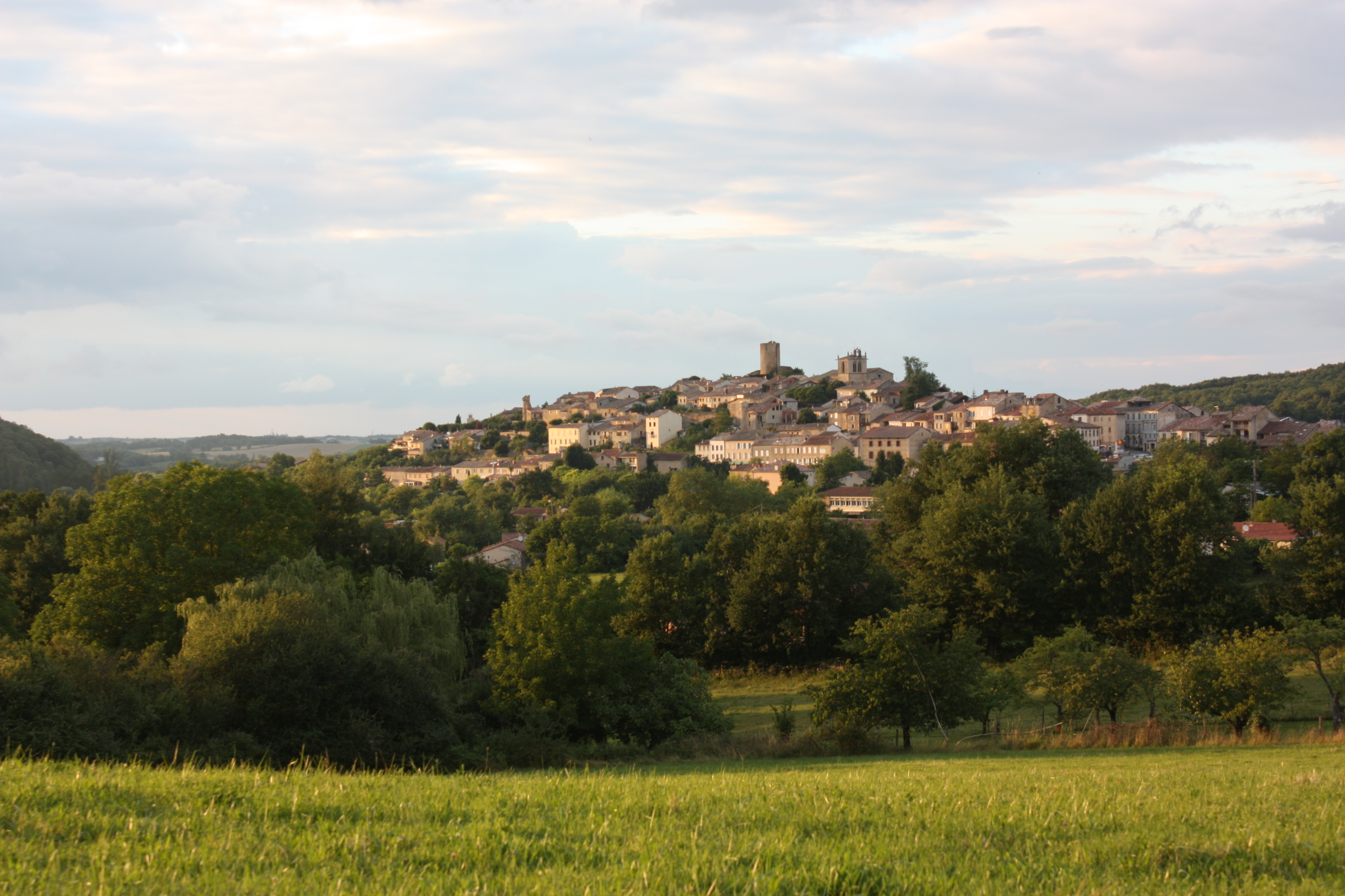 Village d'Aurignac